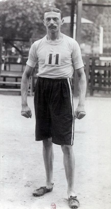 Henri Deloge, Frenchman, silver medal winner at the 1900 Olympic Games, 1500 meters. photography, reproduction, no restrictions on use